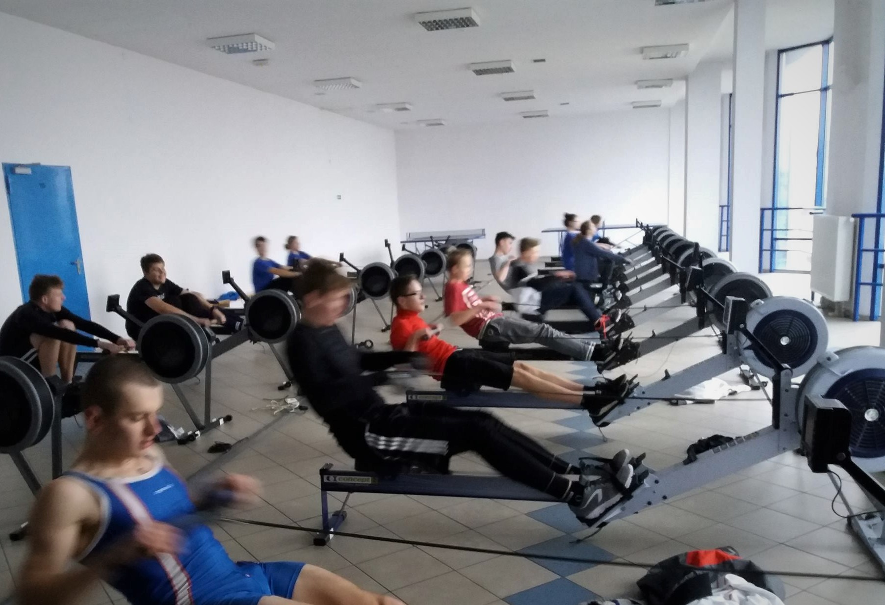 GKW Drakkar Gdansk - ergo training in club boathouse